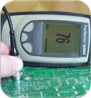 Measurement of the conformal coating thickness after application can be completed once the coating is dry enough to handle and a hardness is achieved using a non contact technique using eddy currents. A system like the Positest from SCH technologies is extremely quick and accurate to ±1 um at thin films of 25-50 um. Placing the test probe head flat on the surface of the conformal coating, the measurement is almost instantaneous and provides an immediate repeatable result for thickness measurement of conformal coating. Test coupons are the ideal method for measuring the coating thickness, whether is it spraying or dipping, and can be kept as a physical record of the performance. Apply the coating to the test coupons at the same time as the circuit boards provides a permanent measurement and an accurate guide to the coating thickness.